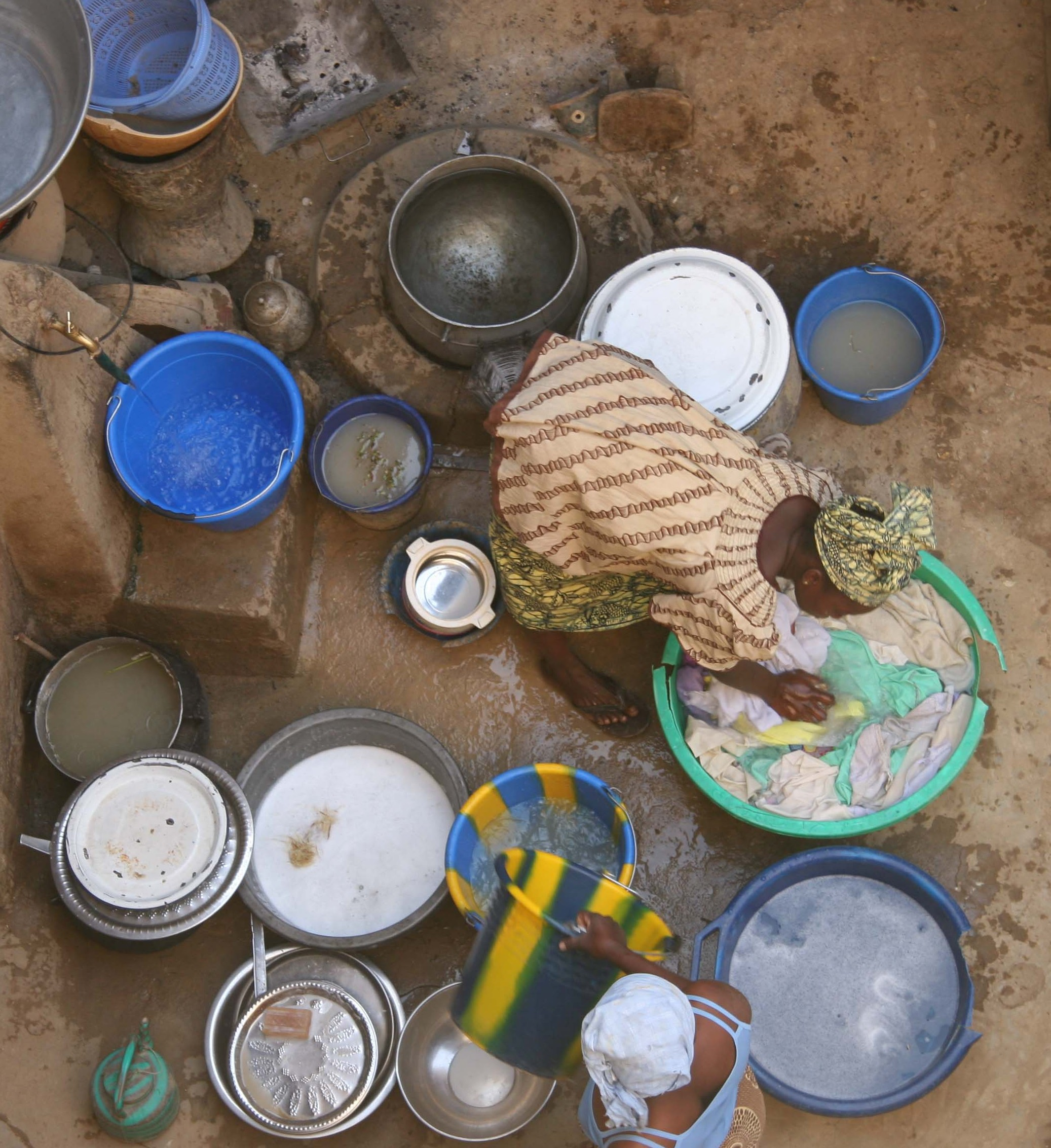 Women at work. View from above in Djenné, Mali